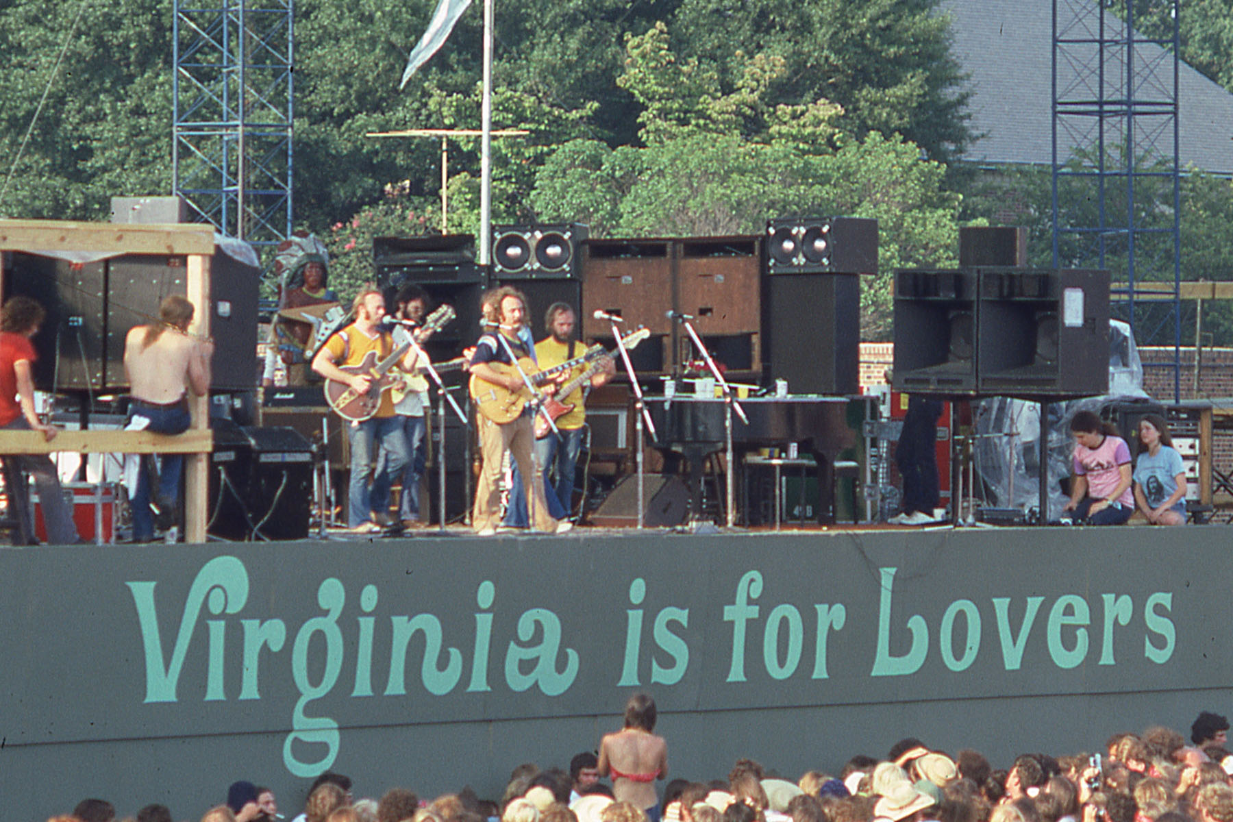 Crosby, Stills, Nash & Young 1974 reunion tour at Foreman Field, Old Dominion University, Norfolk VA, August 17 1974.Kodachrome 35 mm transparency taken with a Yashica TL Electro SLR camera. Scanned with an Epson Perfection V500 Photo